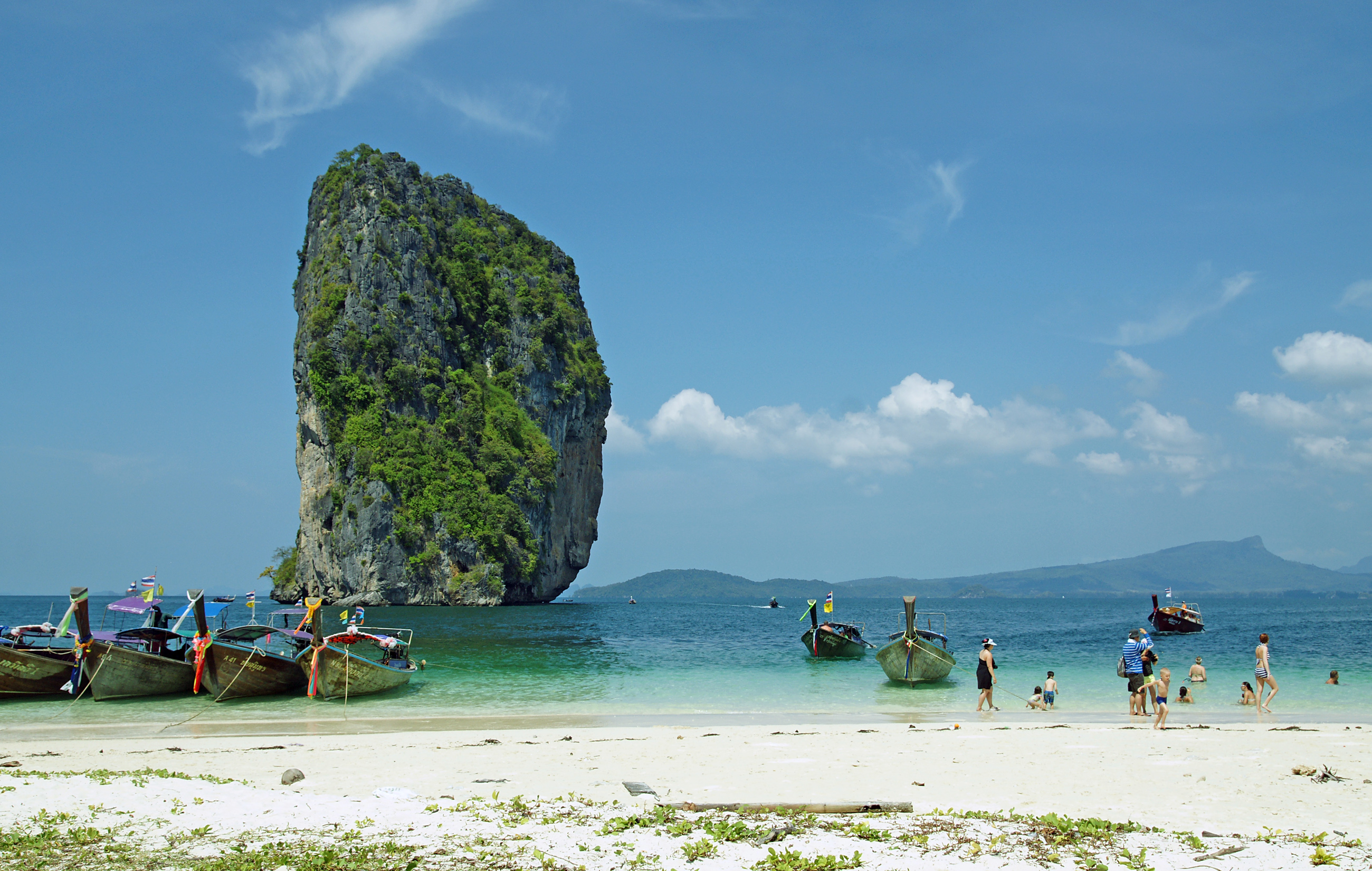 The beach of Poda island with long-tail boats, Krabi, Thailand.